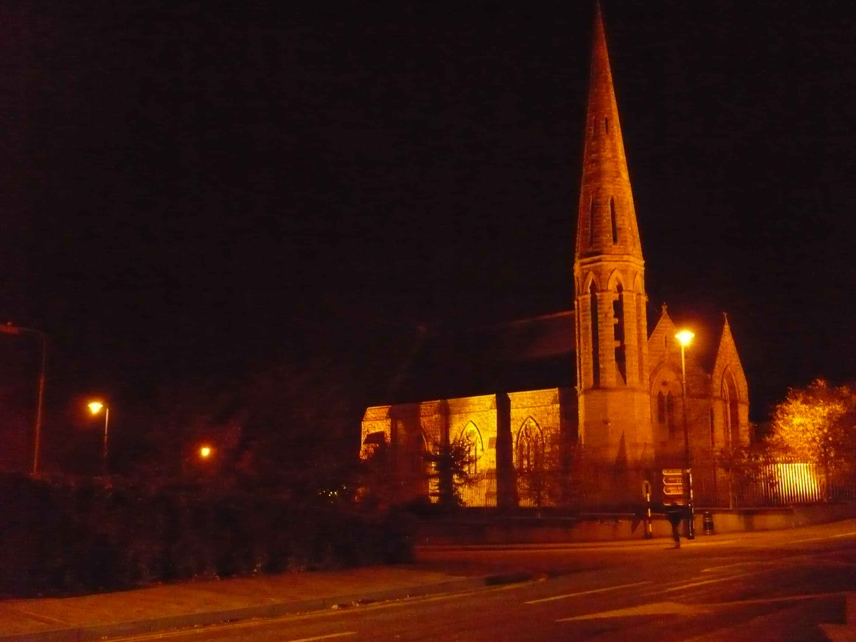 Church of Ireland in Westport.